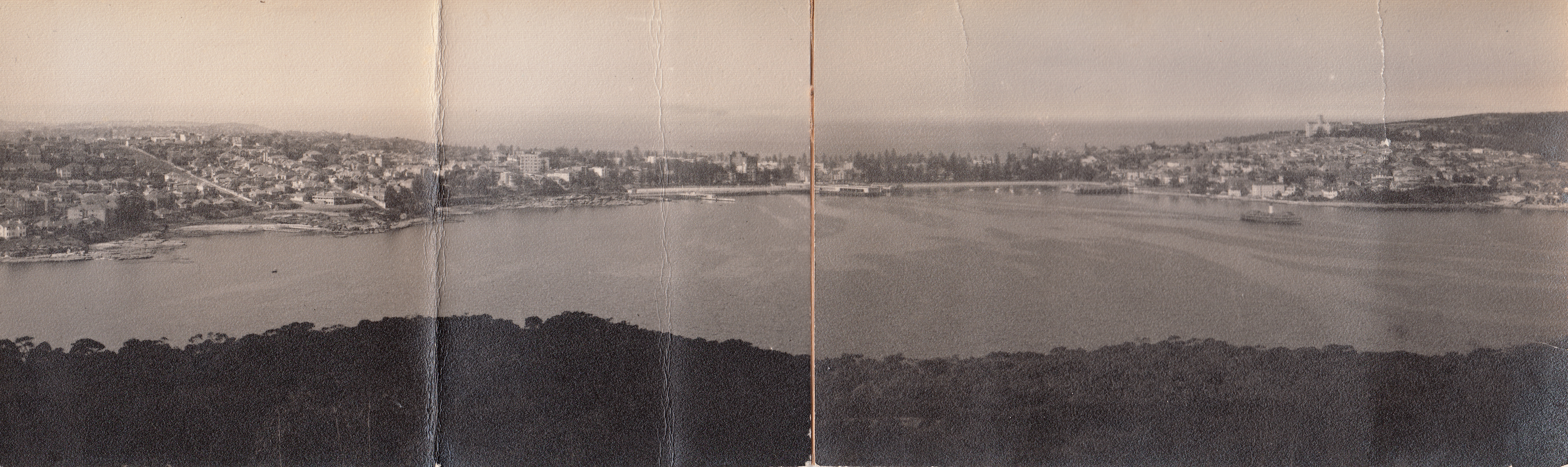 Photograph. 8.3 x 27.4 cm. Found in an antique shop in Adelaide.